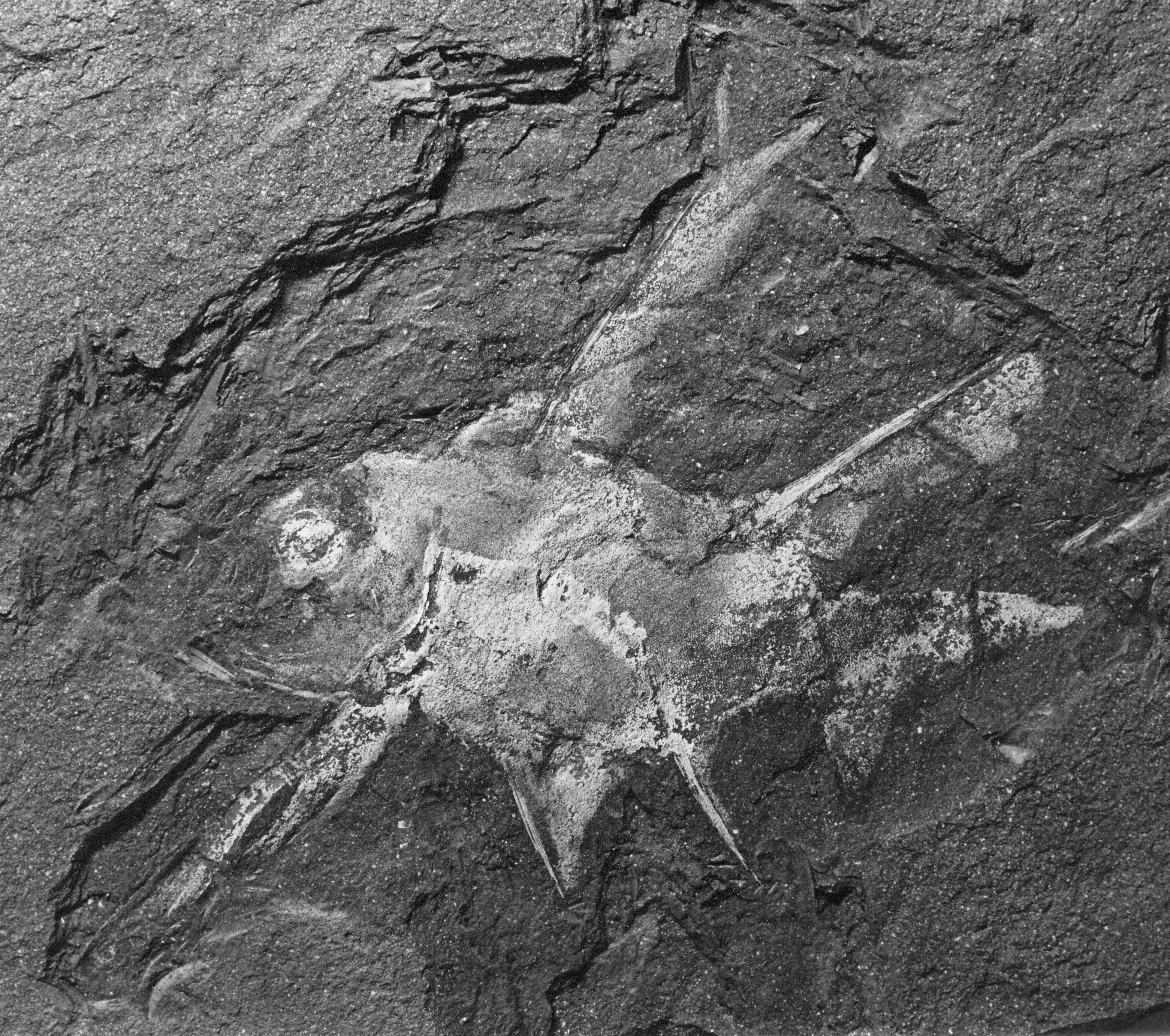 Diplacanthus acus, an exceptionally well preserved acanthodian fish (10 cm long) from the Late Devonian Waterloo Farm lagerstätte in the Eastern Cape, South Africa